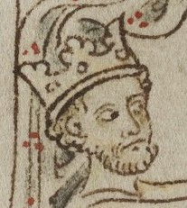 Louis IX